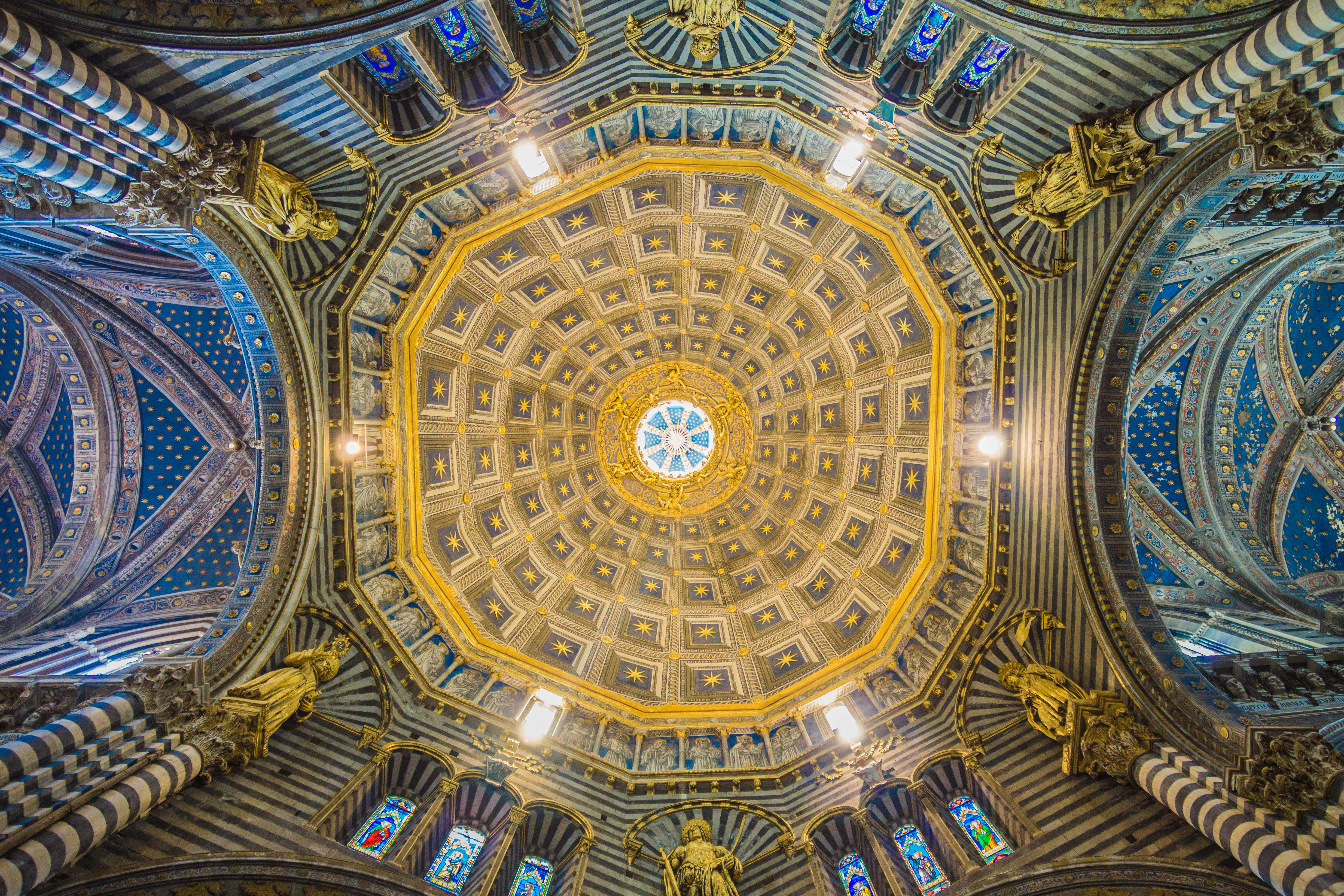 Siena, Italy